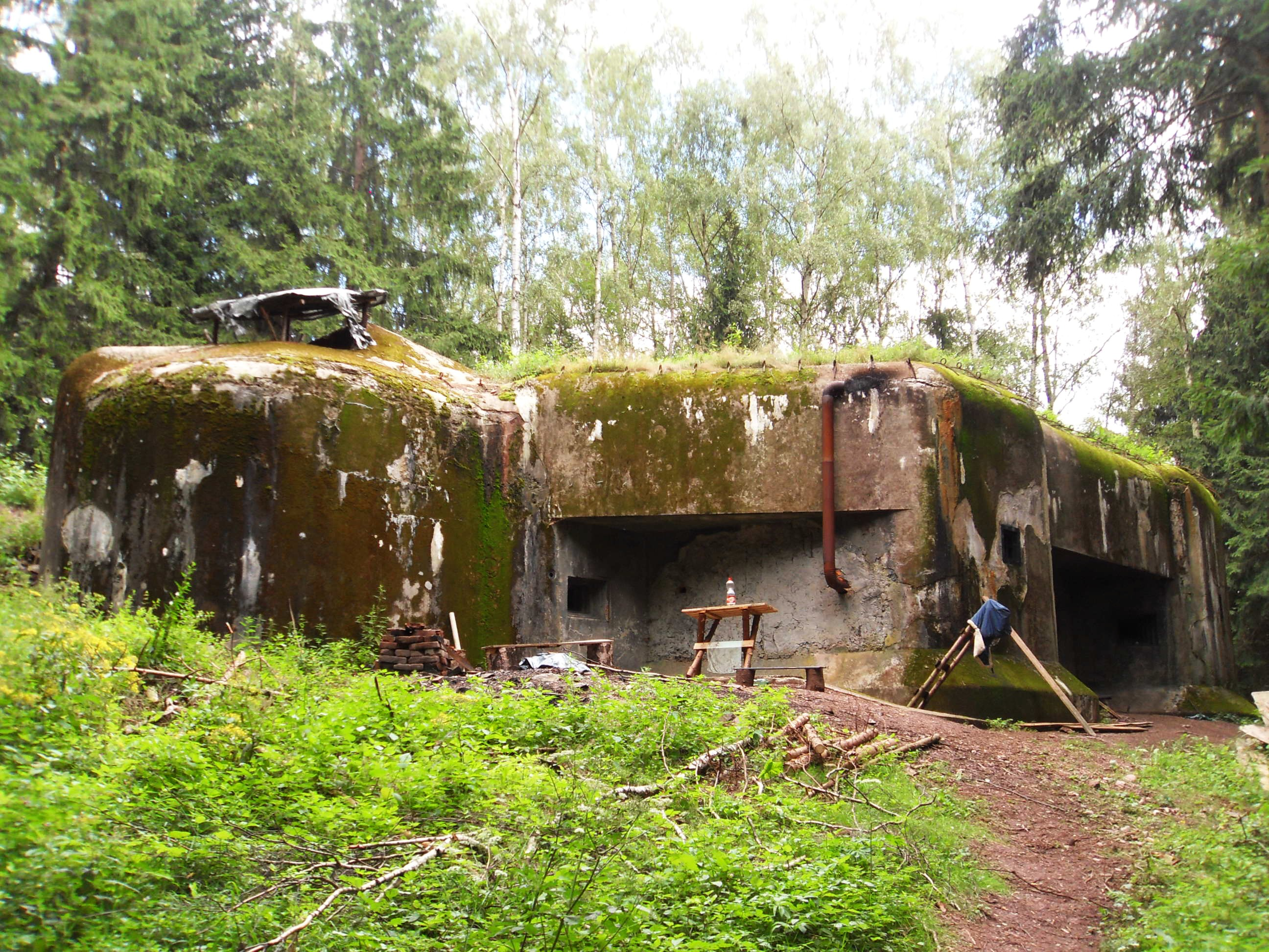 T-S 65 U buku infantry casemate, Trutnov District, Czech Republic